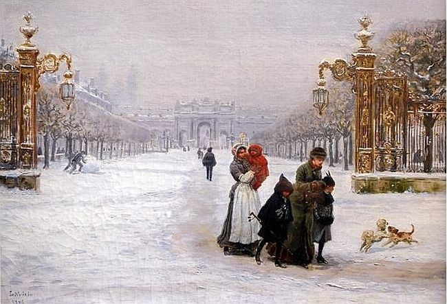 Place de la Carrière (Nancy, Lorraine, France), by Léon Joseph Voirin